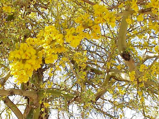 Geoffroea decorticans flowers in detail